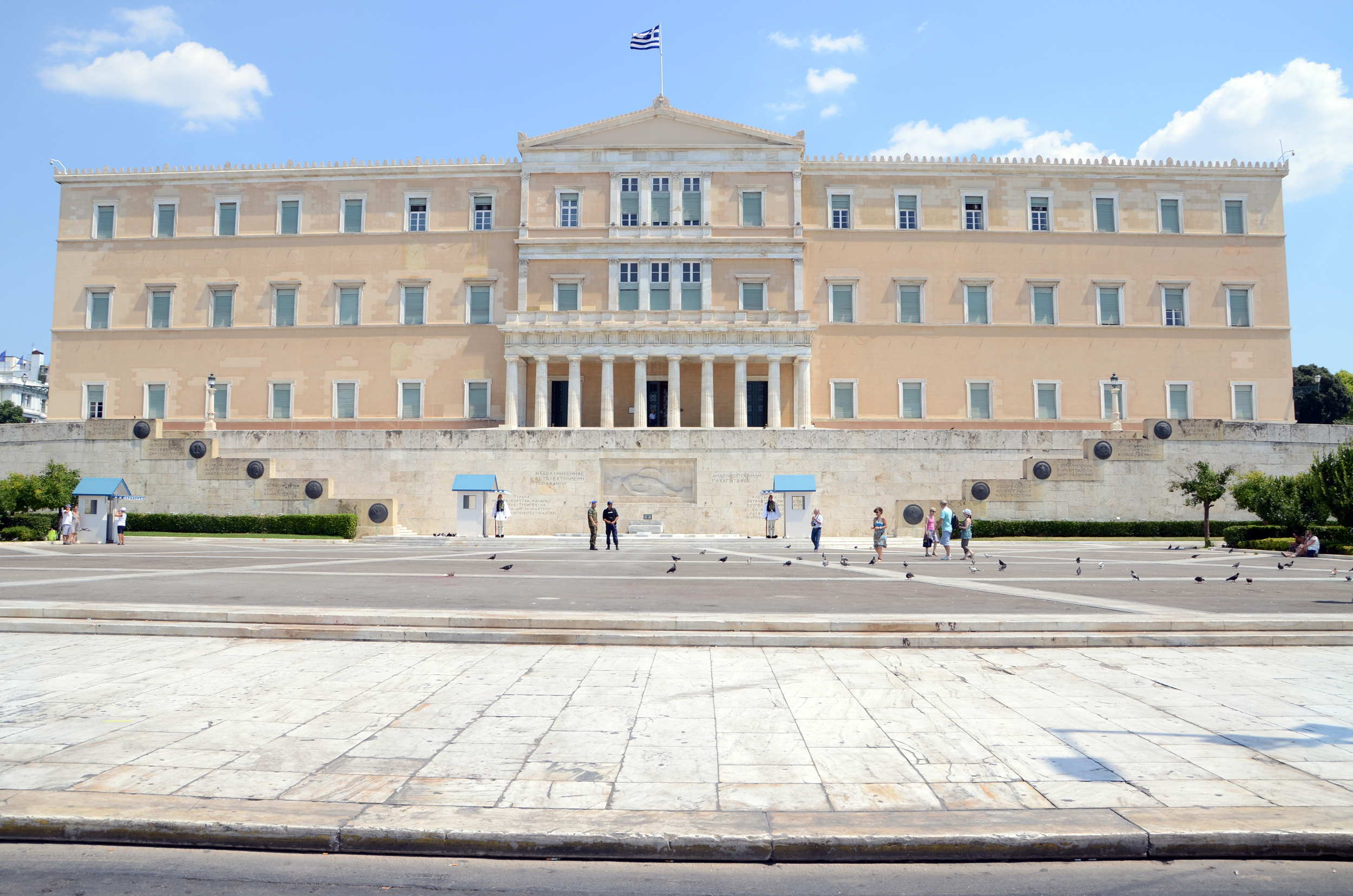 Hellenic Parliament (1932-Present).